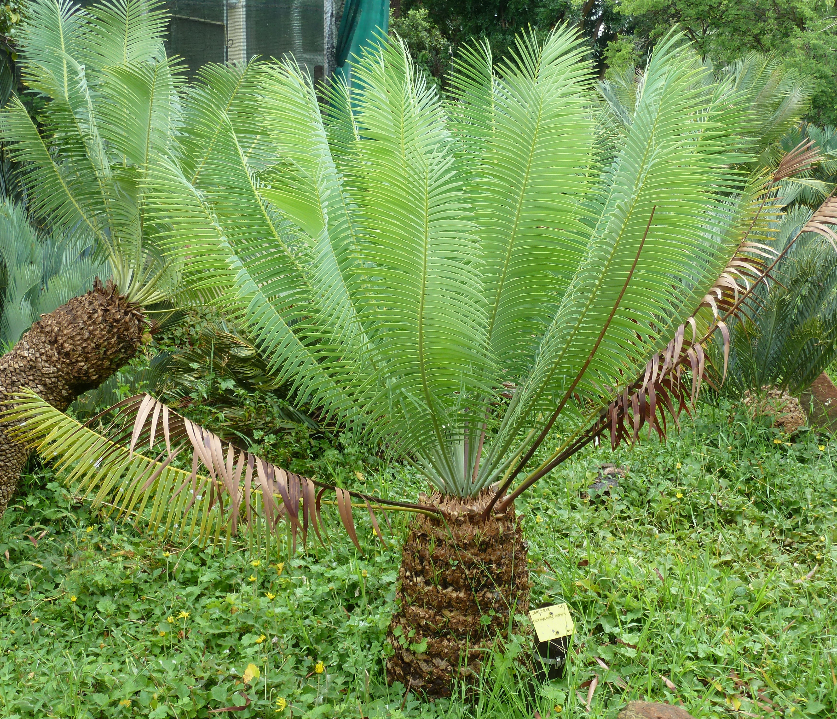 Lydenburg cycad in the Manie van der Schijff Botanical Garden, Pretoria